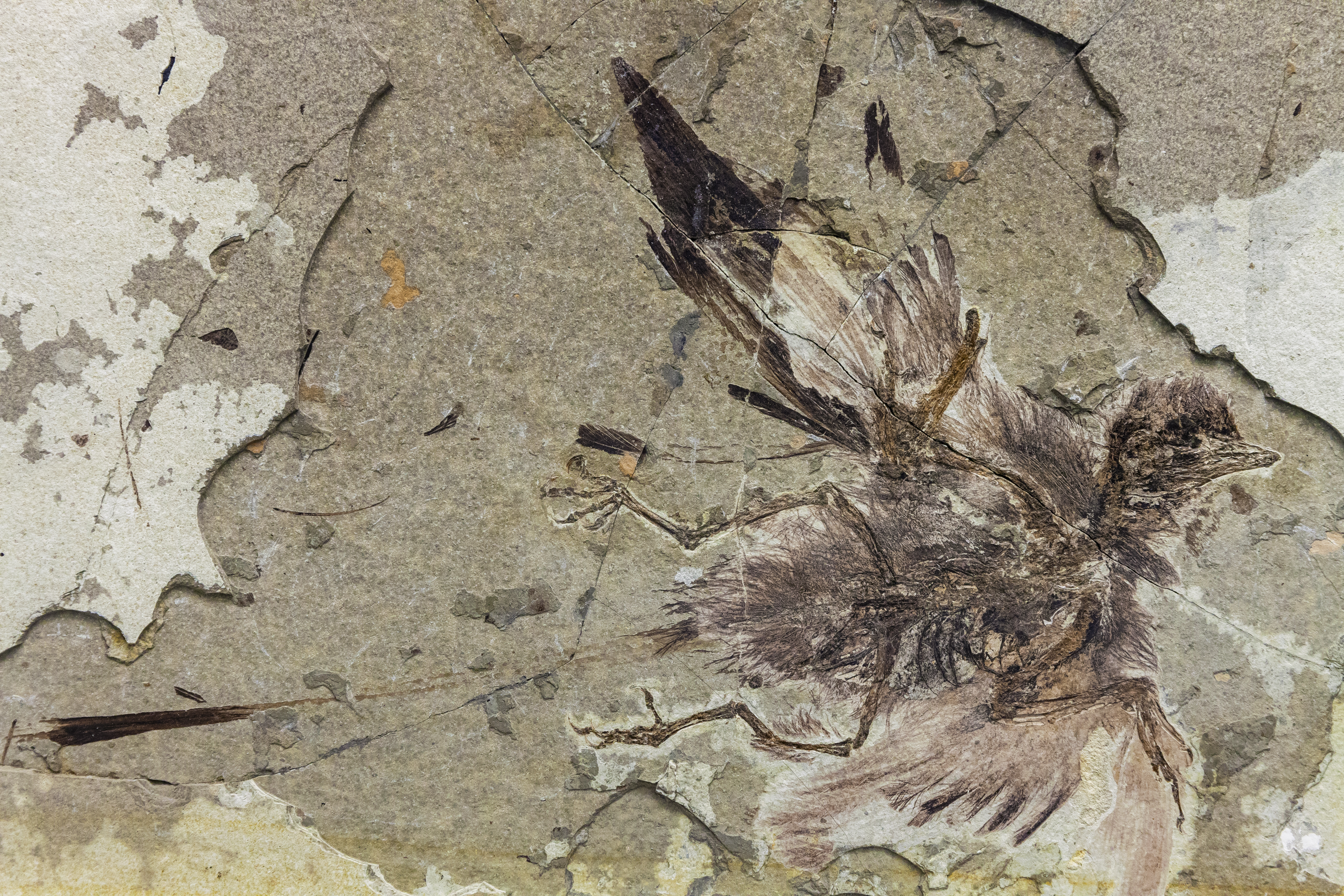 Fossil specimen of Protopteryx fengningensis collected from Fengning, Hebei, China. This specimen is the main slab of BMNHC Ph1060 and a collection of Beijing Museum of Natural History, displayed in National Museum of Natural Science (Taichung, Taiwan) during a special exhibition.